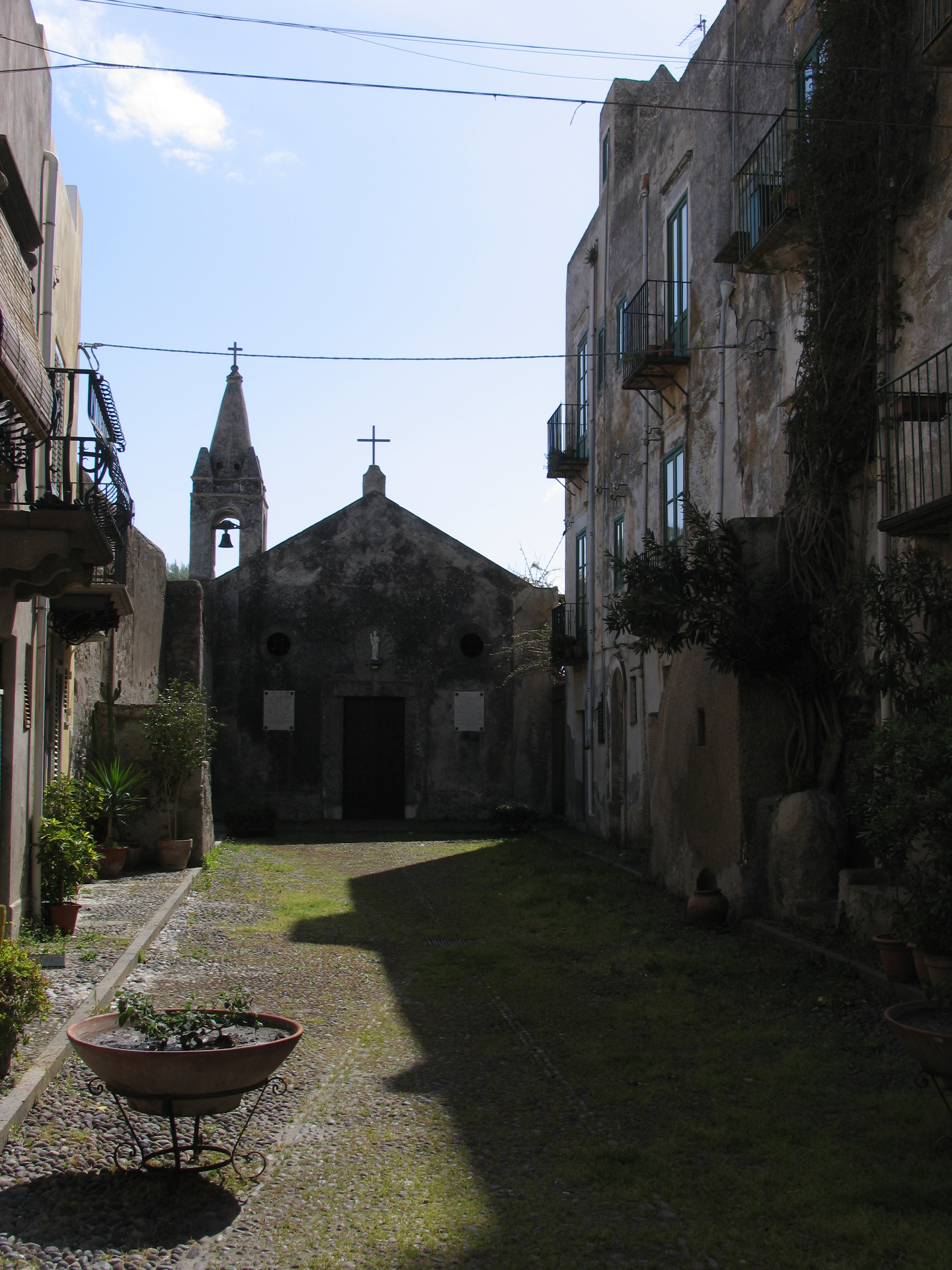 Lipari Island - Church of Saint Bartolomeus out of the village